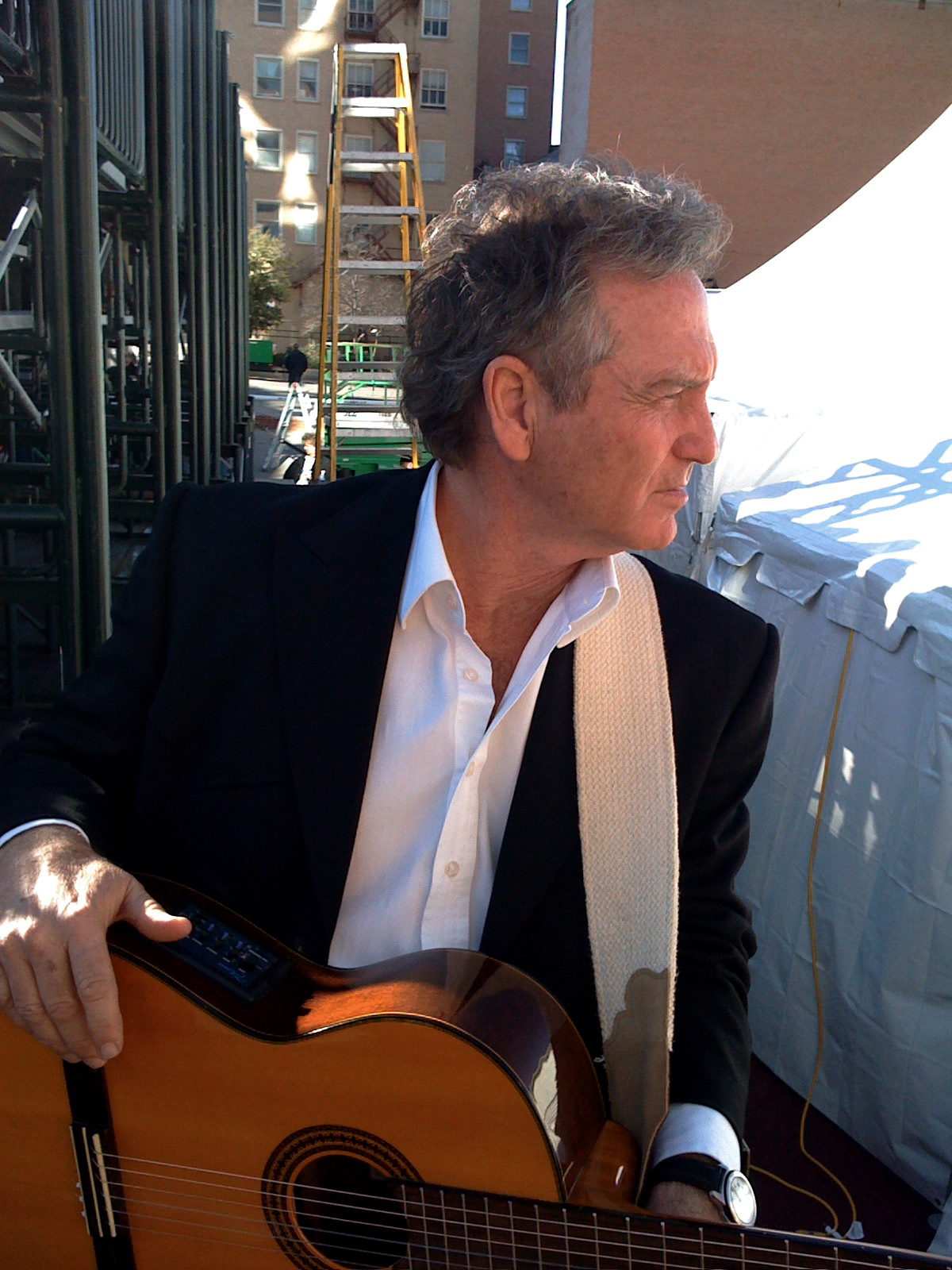 Larry Gatlin at political rally in Midland, TX